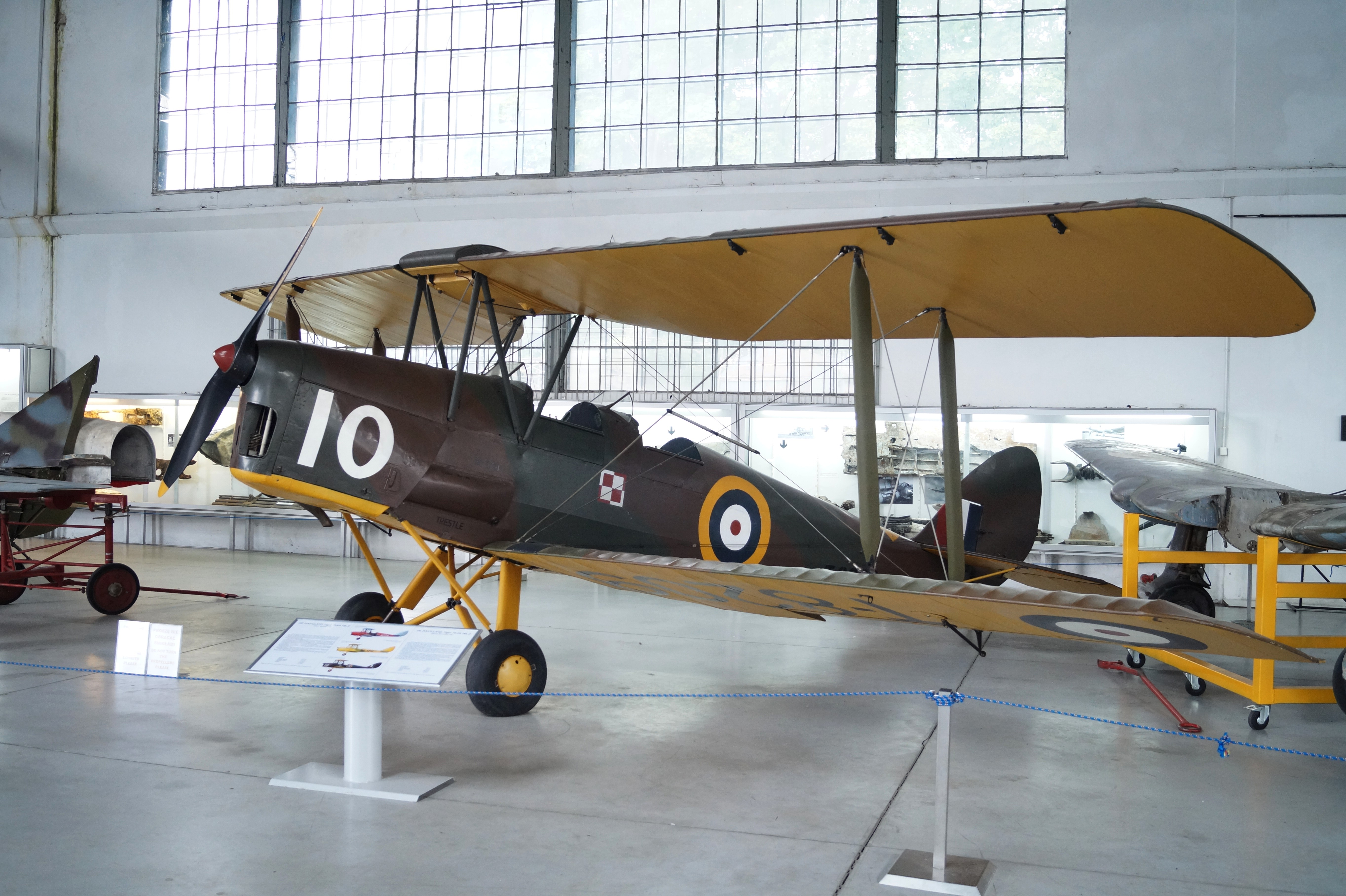 This photo was taken during Automotive Wikiexpedition 2016 set up by Wikimedia Polska Association.You can see all photographs in category Wikiekspedycja motoryzacyjna 2016. English | polski | +/− De Havilland Tiger Moth Mk. II w Muzeum Lotnictwa Polskiego w Krakowie